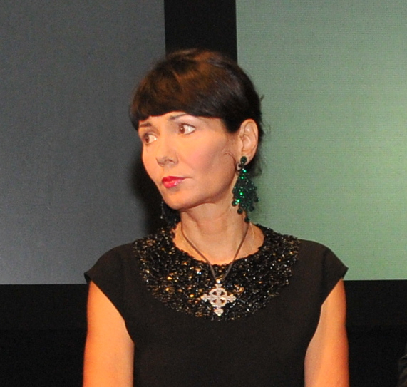 Enrico Rotelli, Ferruccio de Bortoli, Elisabetta Sgarbi, Michael Cunningham, Lidia Zanardi